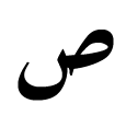 Letter tsad of the arabic abjad